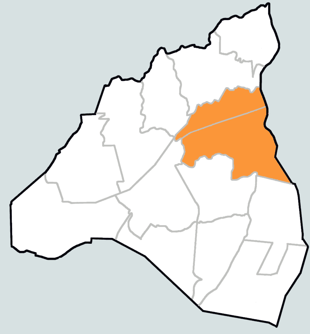 Hwikyeong-dong in Dongdaemun-gu